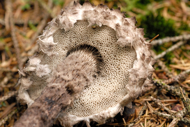 Strobilomyces strobilaceus from Commanster, Belgium. The determination of the species shown in this picture has been verified.